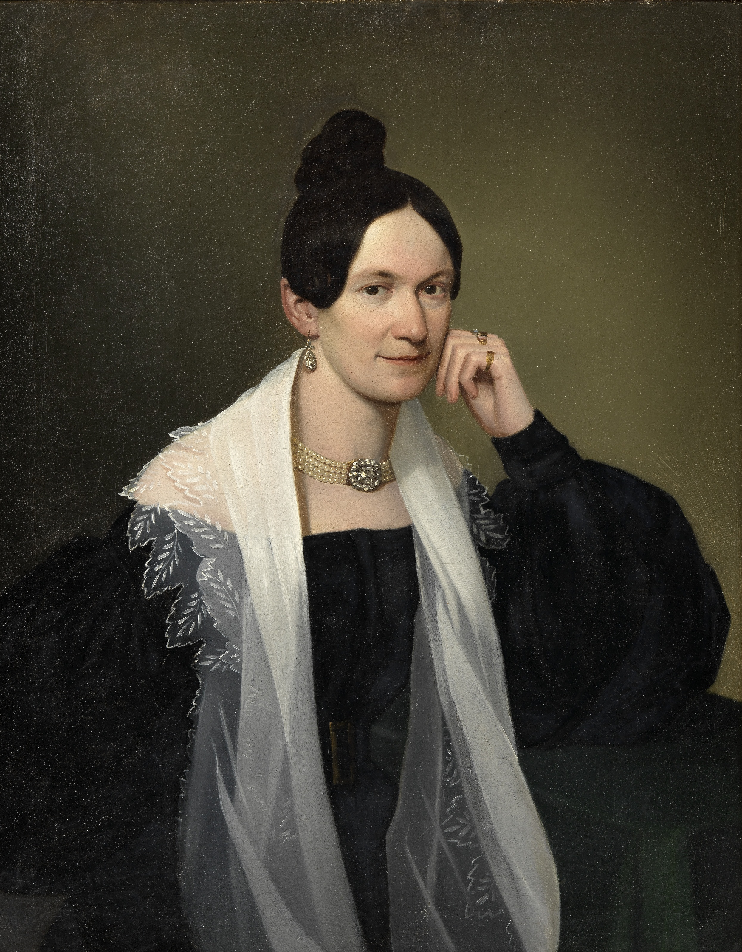 Therese Grob, an Austrian soprano singer and the composer Franz Schubert's first love. Oil on canvas, painted by her cousin Heinrich Hollpein after 1830.